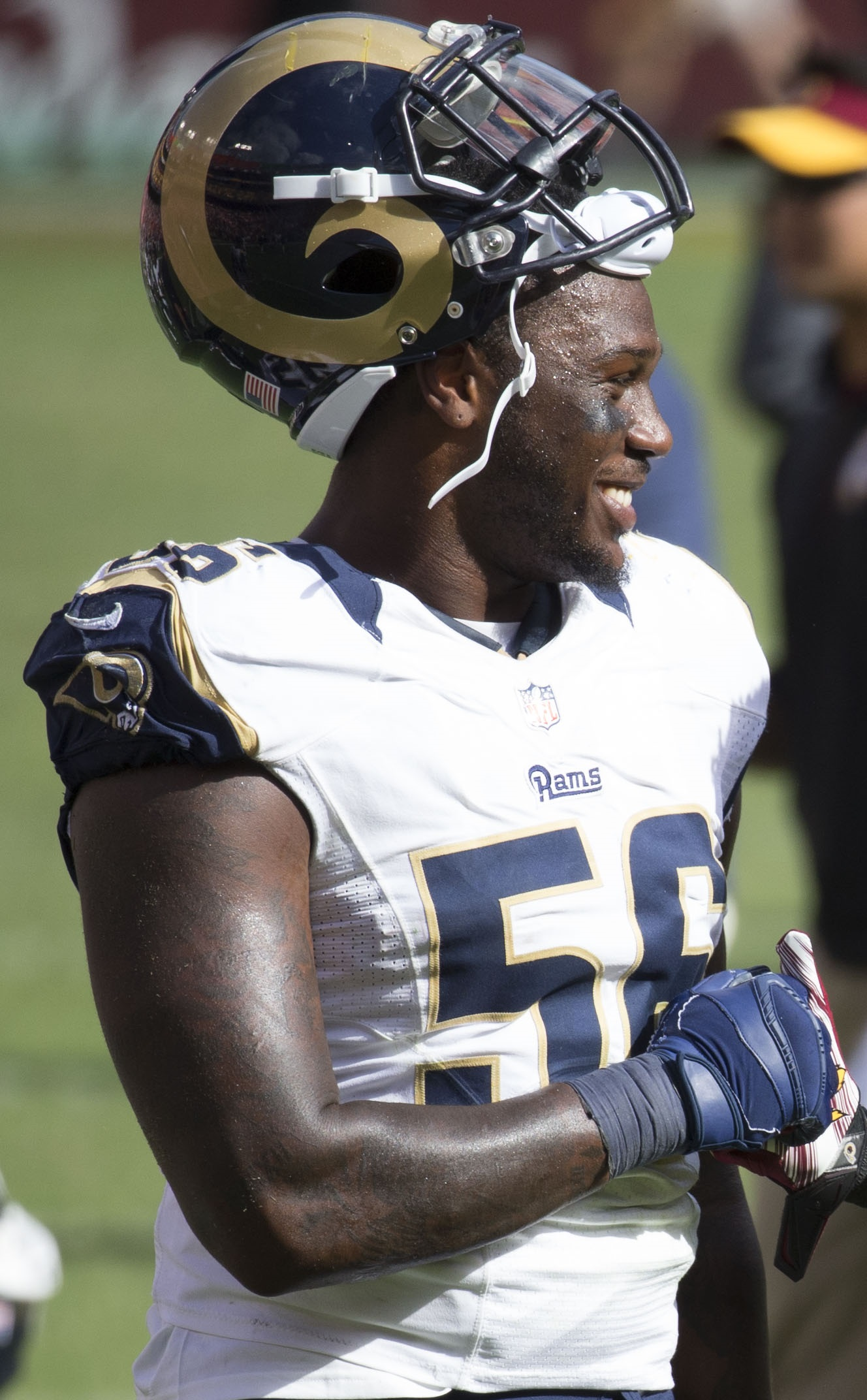 Rams at Redskins 9/20/15